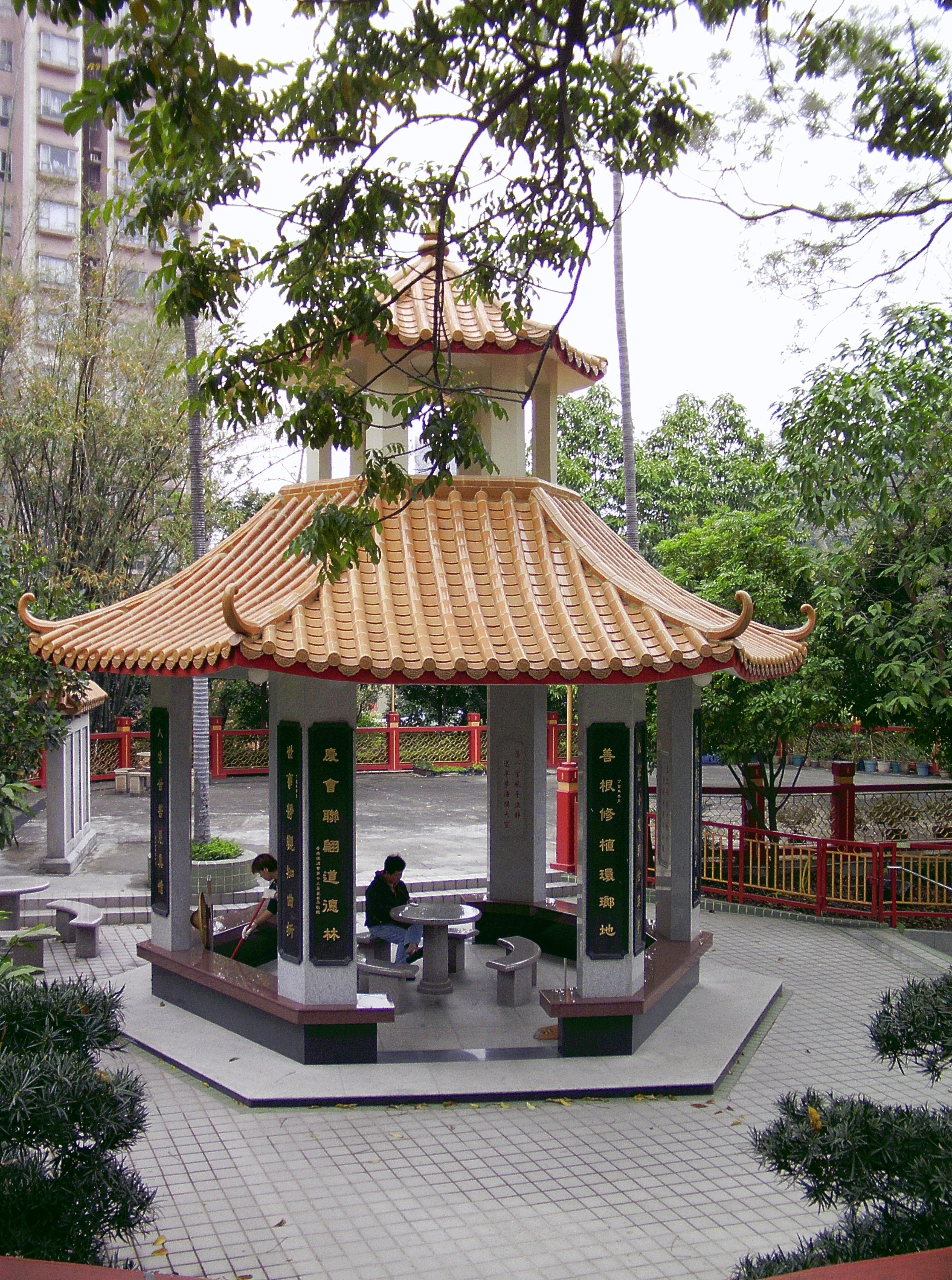 Happy_Pavilion_at_Tuen_Mun_Sin_Hing_Tung 中文（香港）: 香港新界屯門善慶洞善慶亭